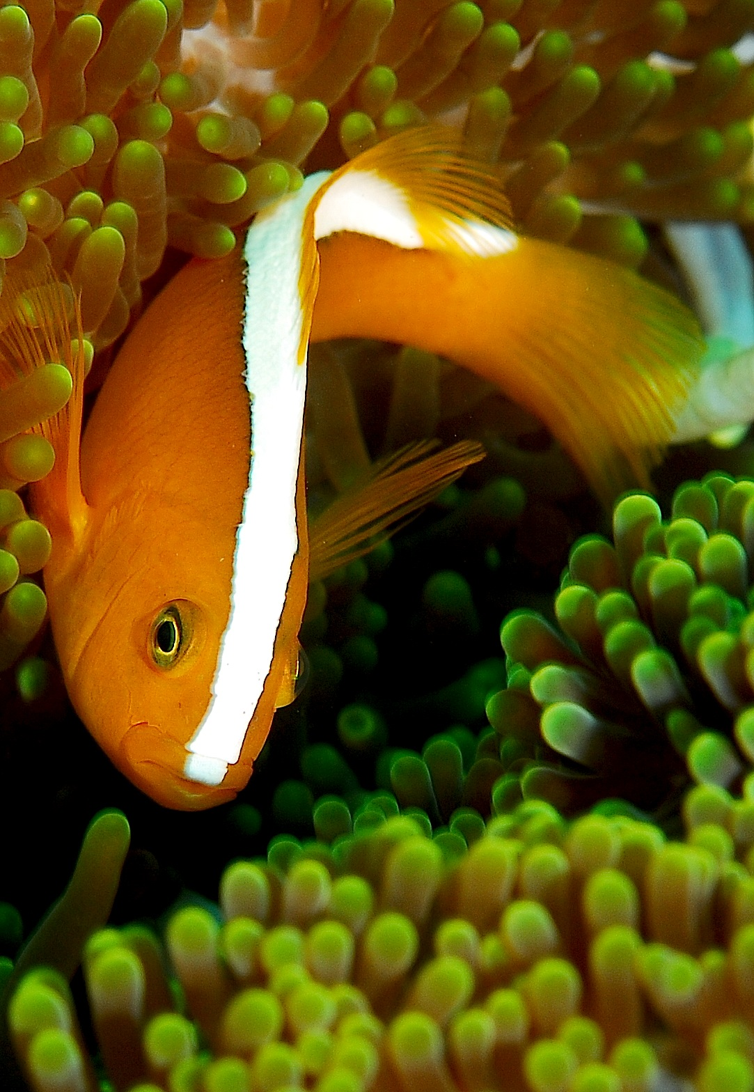 Yellow clownfish